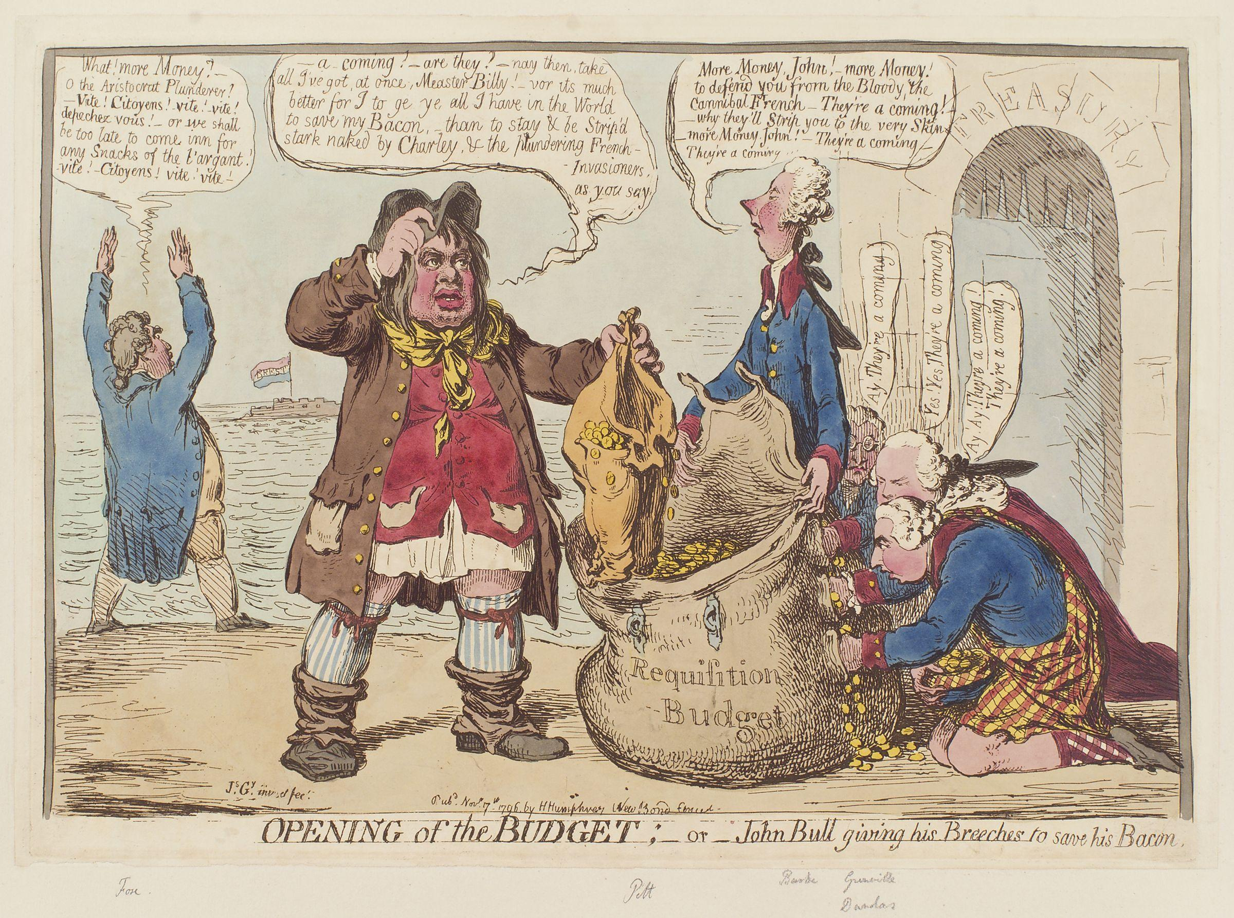 Opening of the budget; - or - John Bull giving his breeches to save his bacon, by James Gillray (died 1815). All images in this batch have been confirmed as author died before 1939 according to the official death date listed by the NPG.